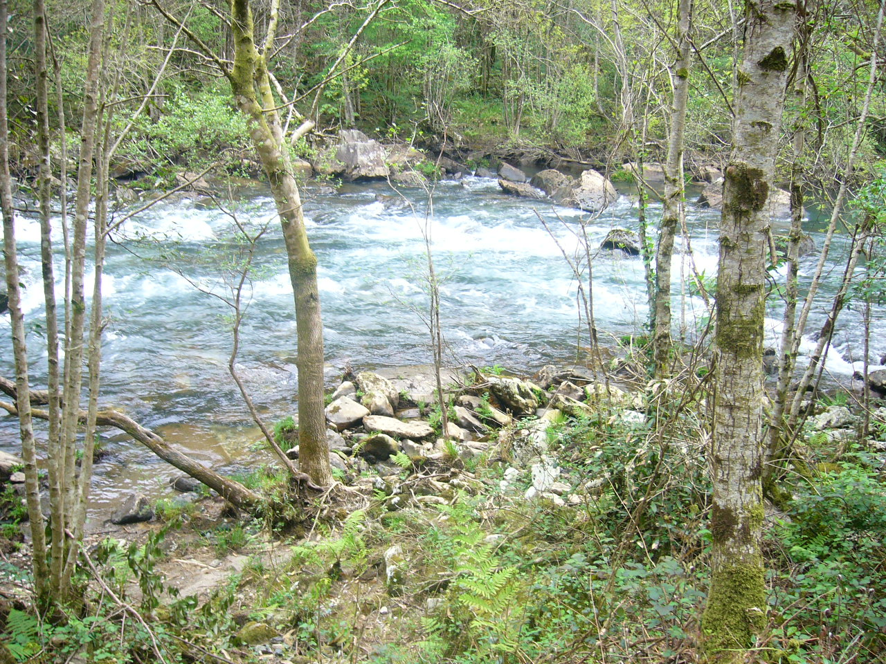 Natural Park of Fragas do Eume, Corunna, Galicia, España.